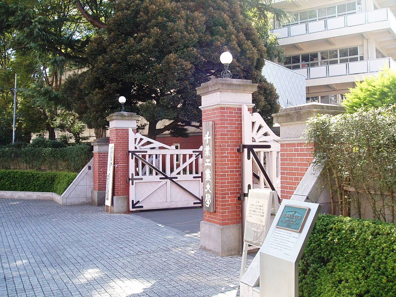 The rear gate of Chiba Institute of Technology at Tsudanuma.Originally built as the main gate of a military base (the railway troops of the Imperial Japanese Army) around 1910. A registered tangible cultural property of Japan (#12-0007).